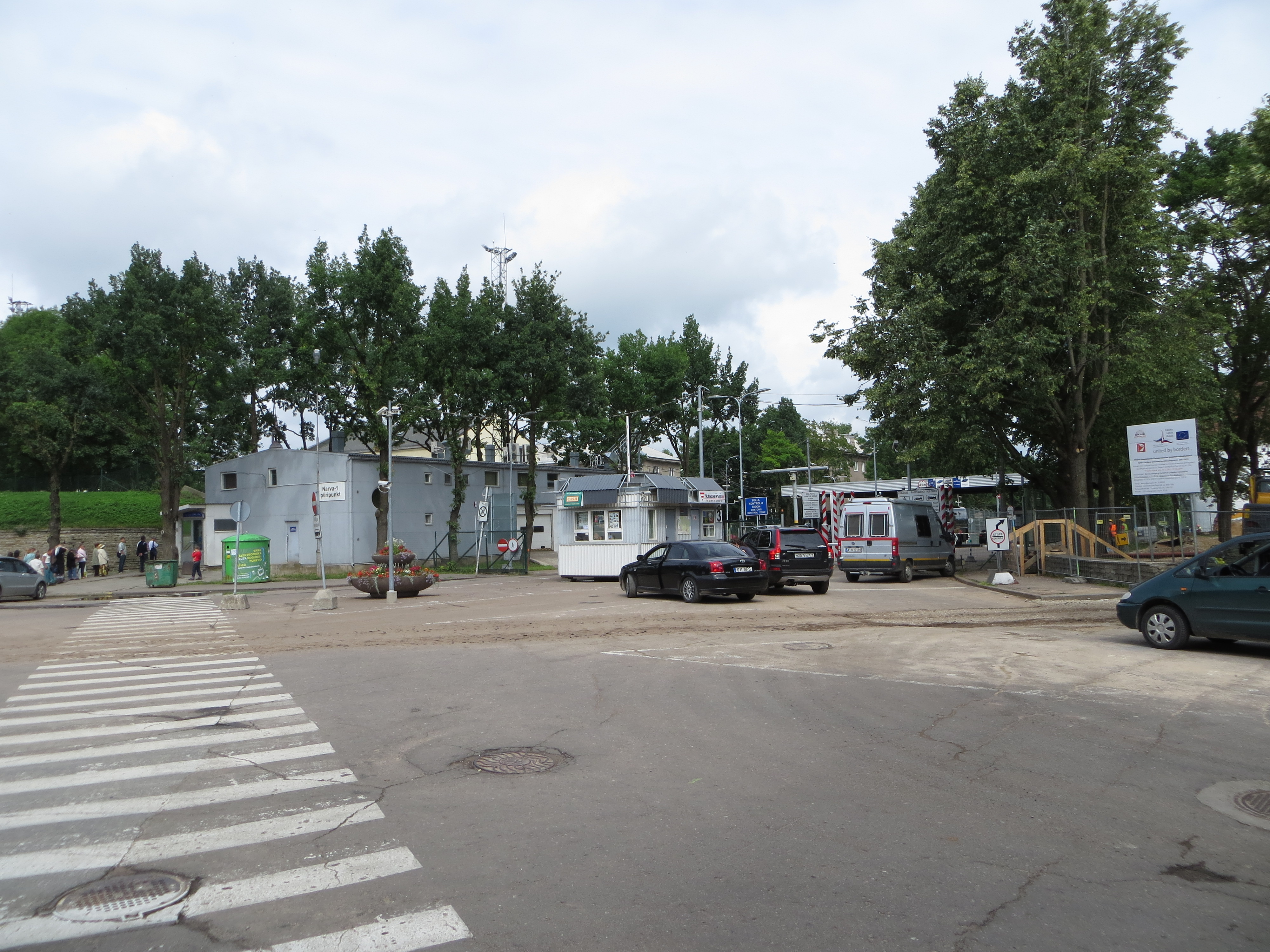 Arriving in the Narva, in the northeast corner of Estonia, I parked on Peetri Plats or Peter's Square, named after Peter the Great who conquered Narva from Sweden following the Great Northern War. Until then, Narva had been a Swedish stronghold and a thorn in the eye of the Russians, who built their own strong fortress just across the river to check the Swedes. This square turned out to be right by the Estonian border station, notice the long line of people waiting to get into Russia?